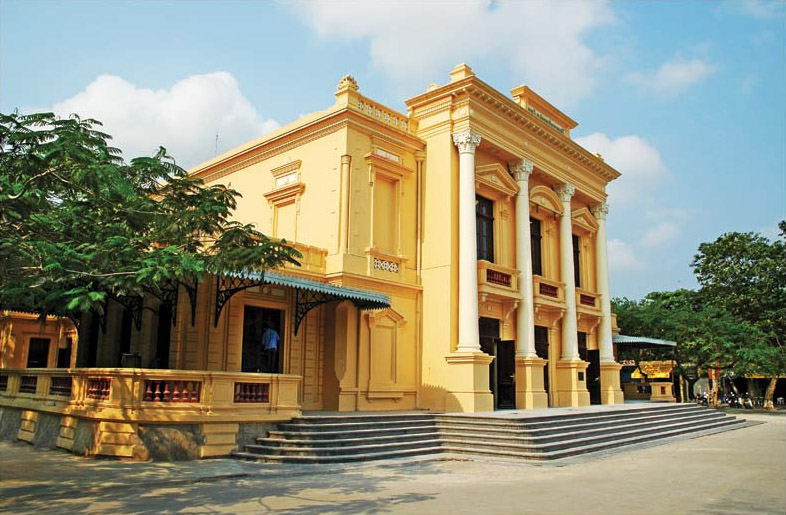 The main theater of Hai Phong City